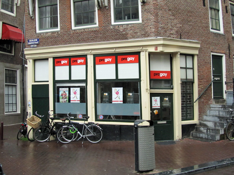 Office of ProGay, a foundation that organizes the Amsterdam Gay Pride